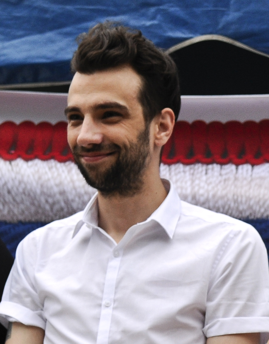 “How to Train Your Dragon 2” cast Dean DeBlois, writer and director, Jay Baruchel, voice of Hiccup, and America Ferrara, voice of Astrid, conduct an interview during an advanced screening of the movie open to military members and their families June 4, 2014, at Joint Base McGuire-Dix-Lakehurst, N.J. The visit to JB MDL was part of a USO tour allowing military families the ability to view the movie a week early, ask cast members questions and get autographs. (U.S. Air Force photo by Staff Sgt. Scott Saldukas/ Released)